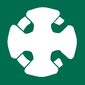 Approximation to the Cadw logo